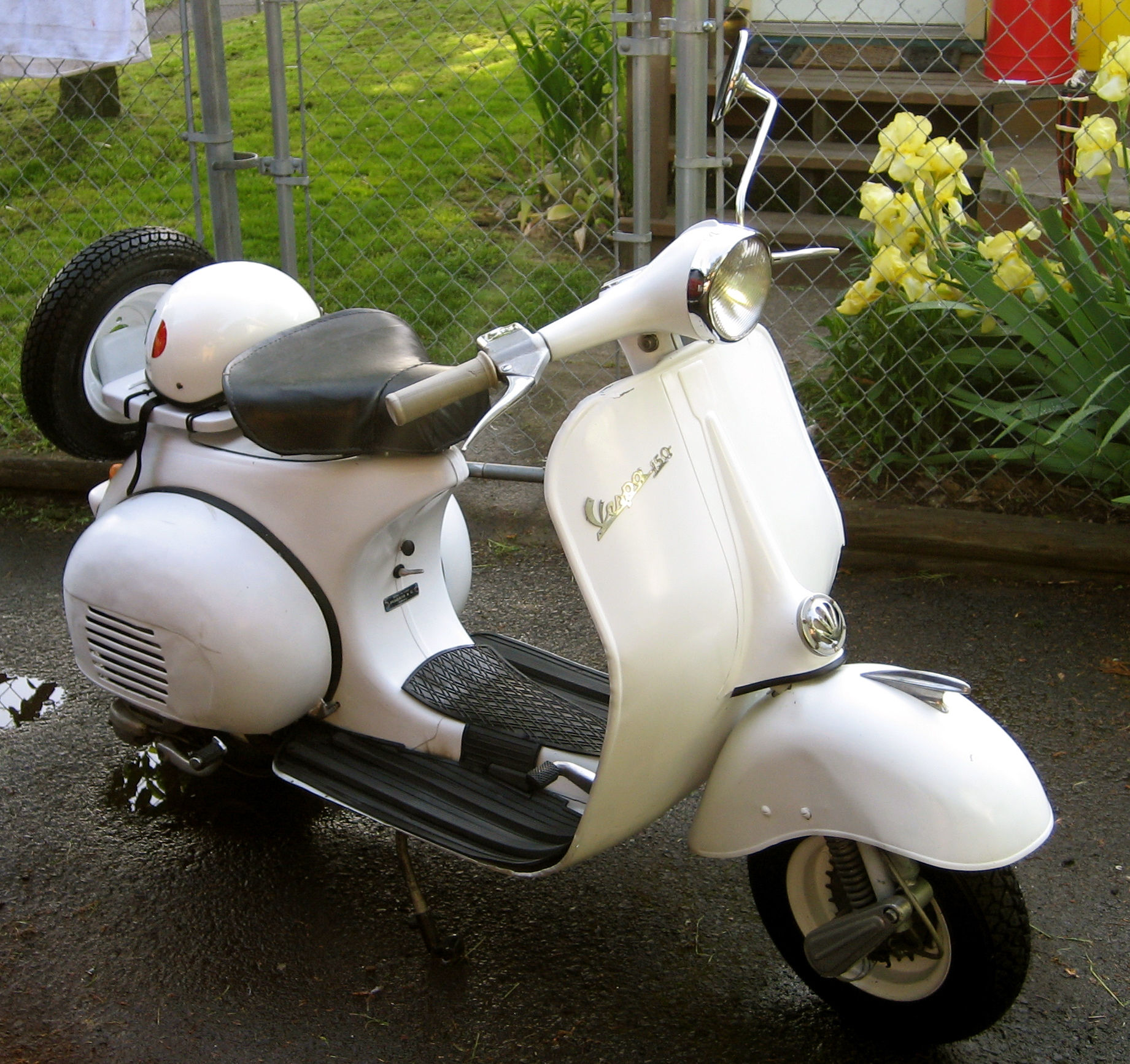 My new "summer toy." With a bit of luck, I won't end up with too much road rash (or too expensive of hospital bills) as a result. I've had it for about a month. It's in pretty good shape, though hasn't been licensed or run in quite some time. Needless to say, I've been doing quite a bit of work: rebuilding the front-end (bearings, brakes, etc) along with re-wiring some electrical, changing the oil, rebuilding the carb, and trying to get it in more reliable running shape. So far, I'm close ... but 50 years is a lot of wear and tear.